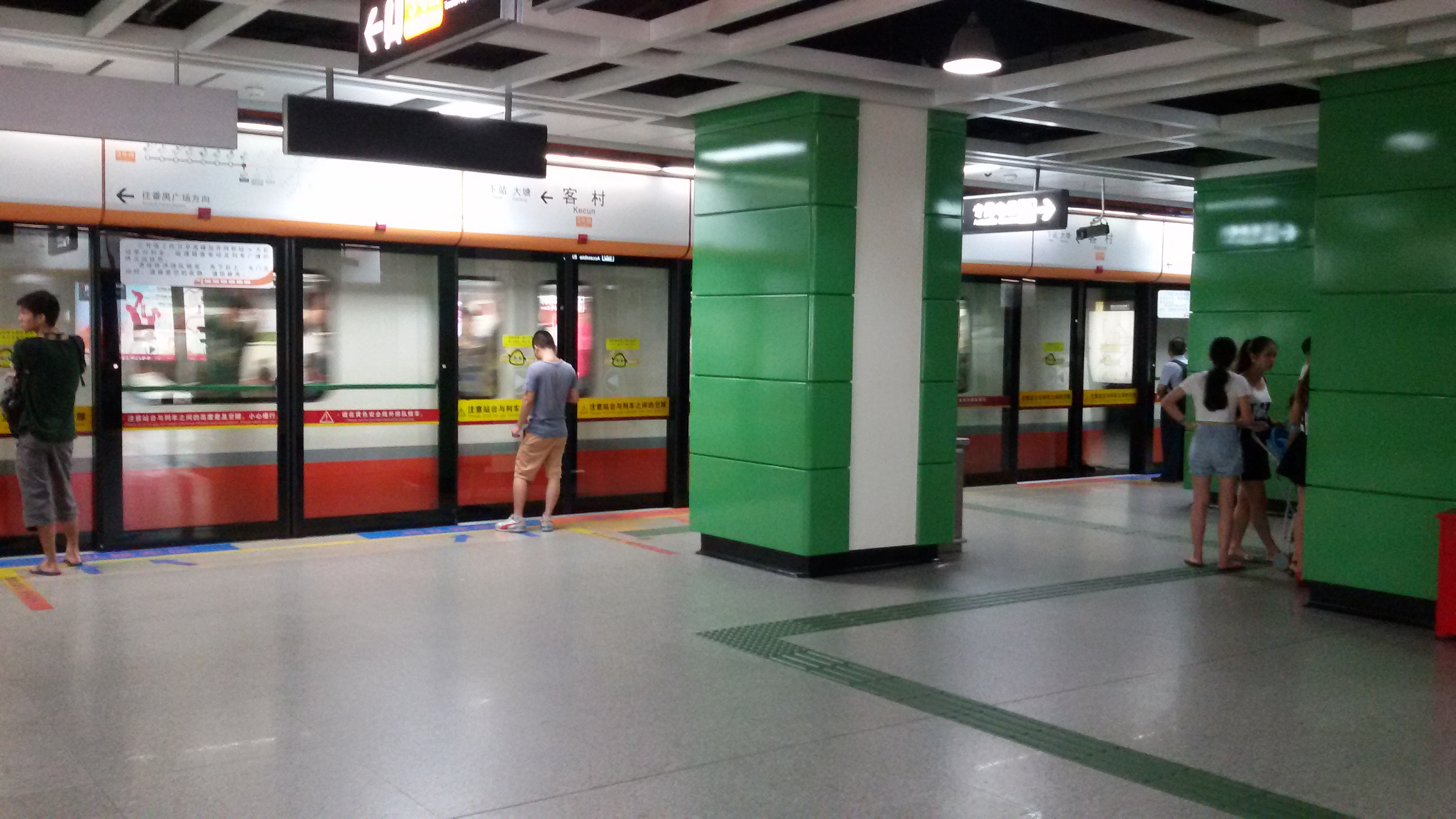 Platform for Kecun Station at Line 3 in Guangzhou Metro.